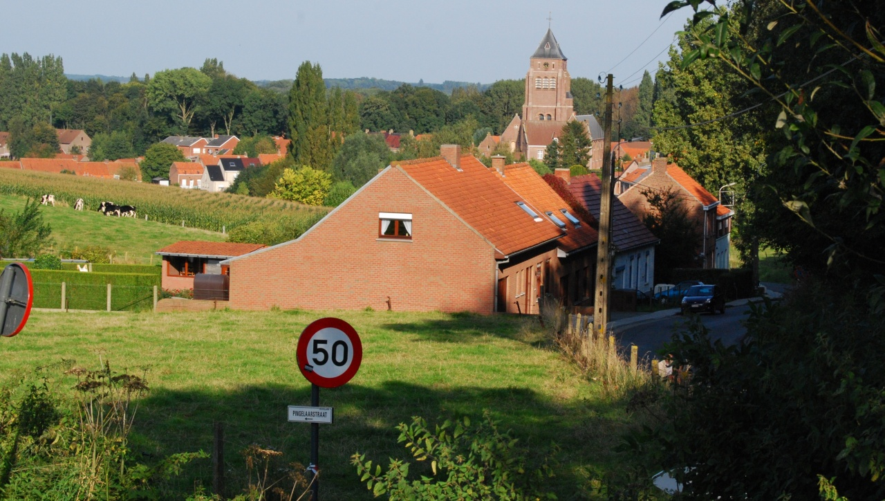 View of the Kemmel Village from Reningelstraat